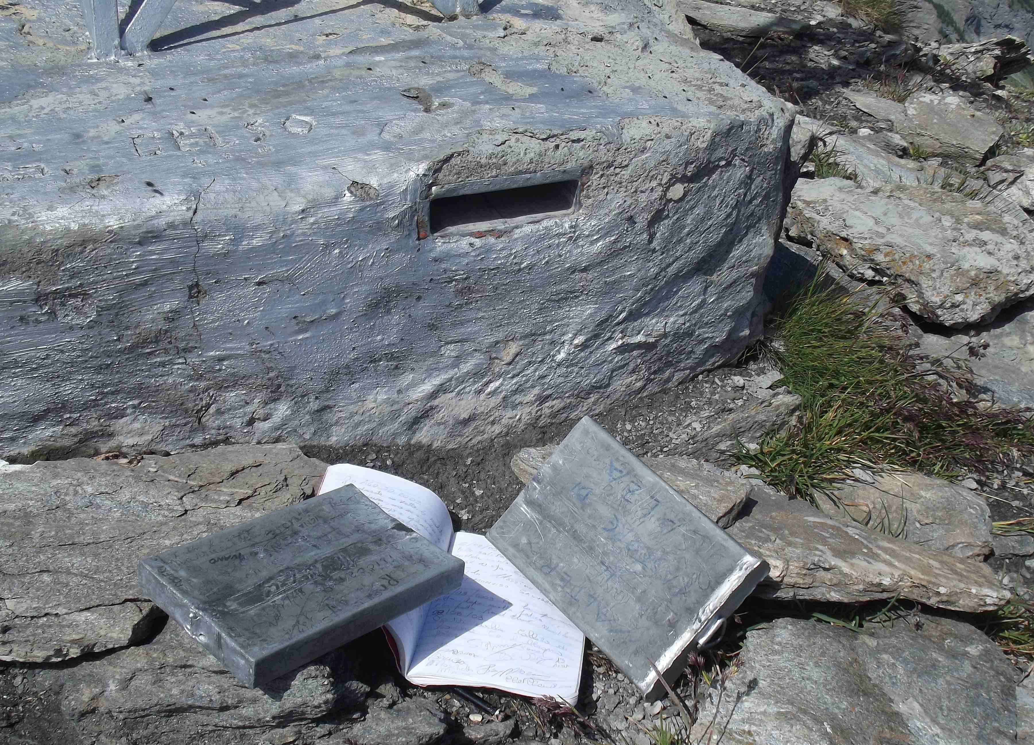 Monte Pignerol summit (Cottian Alps, TO, Italy) : summit register